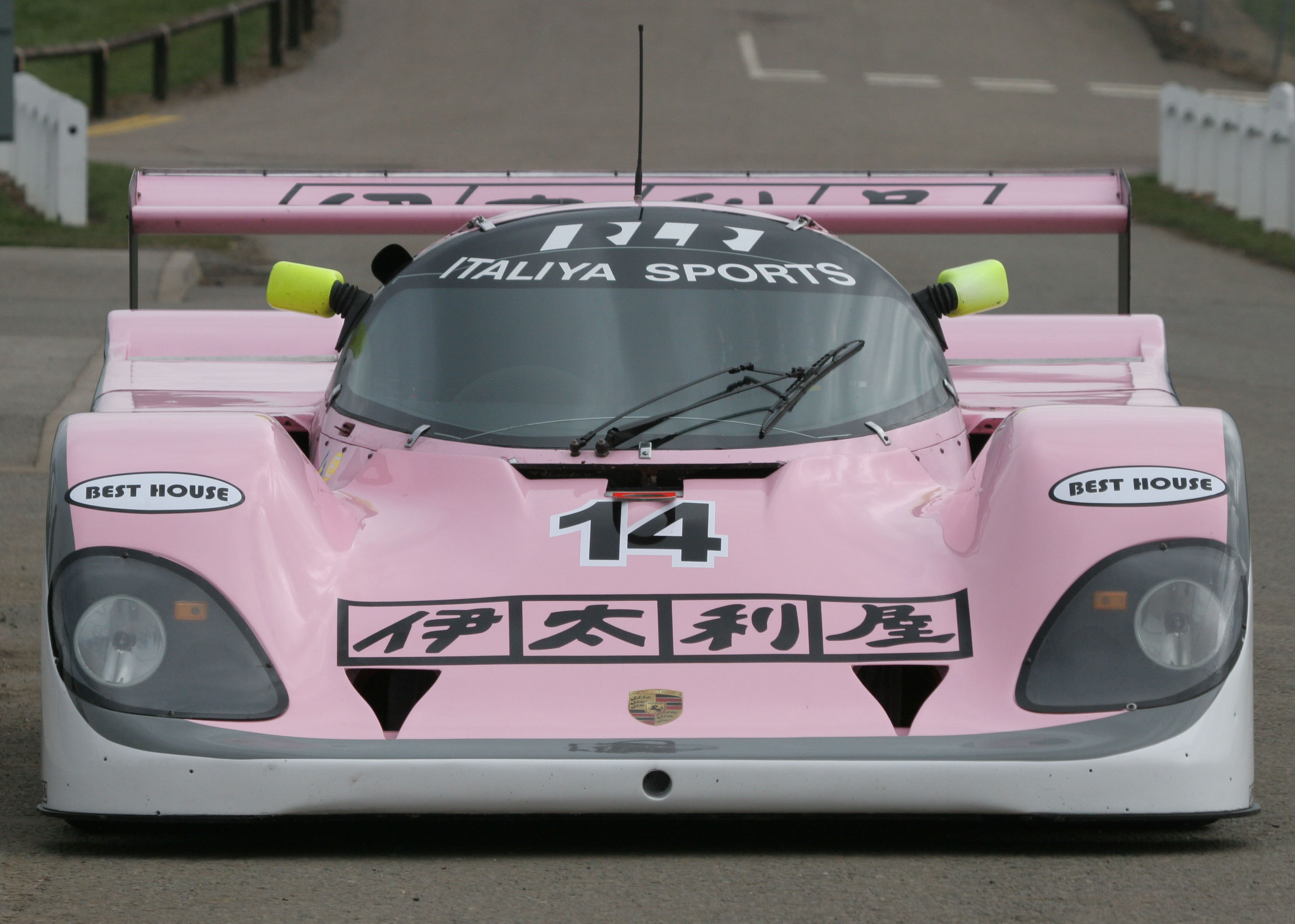 Richard Lloyd Racing Italiya Sports Porsche 962C. It was raced to 11th place in 1990 Le Mans 24 hour race by John Watson - Bruno Giacomelli - Allen Berg.